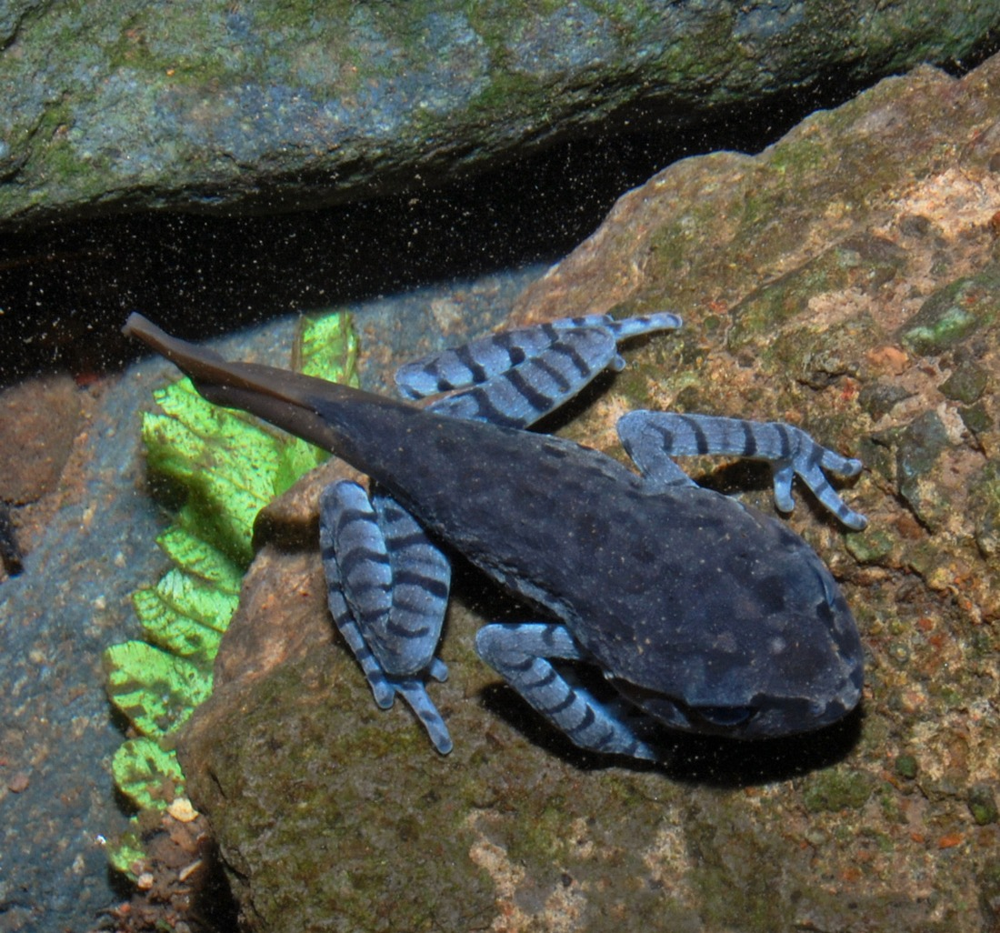 Leptobrachium hasseltii, tailed froglet. From Ciapus leutik river, Calobak, Bogor, West Java, Indonesia